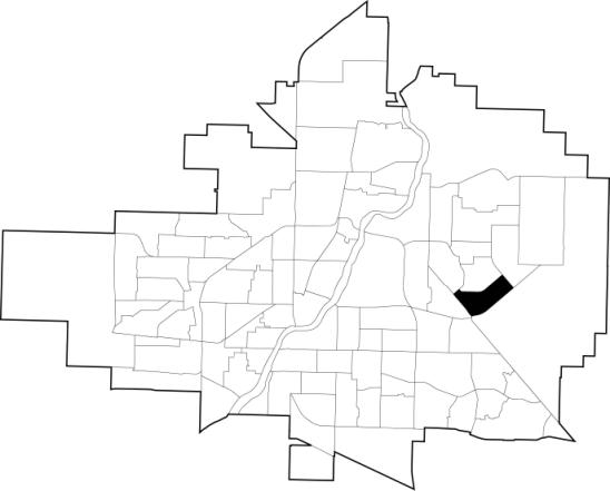 A map showing the location of the Arbor Creek neighbourhood in relation to the other neighbourhoods in Saskatoon.